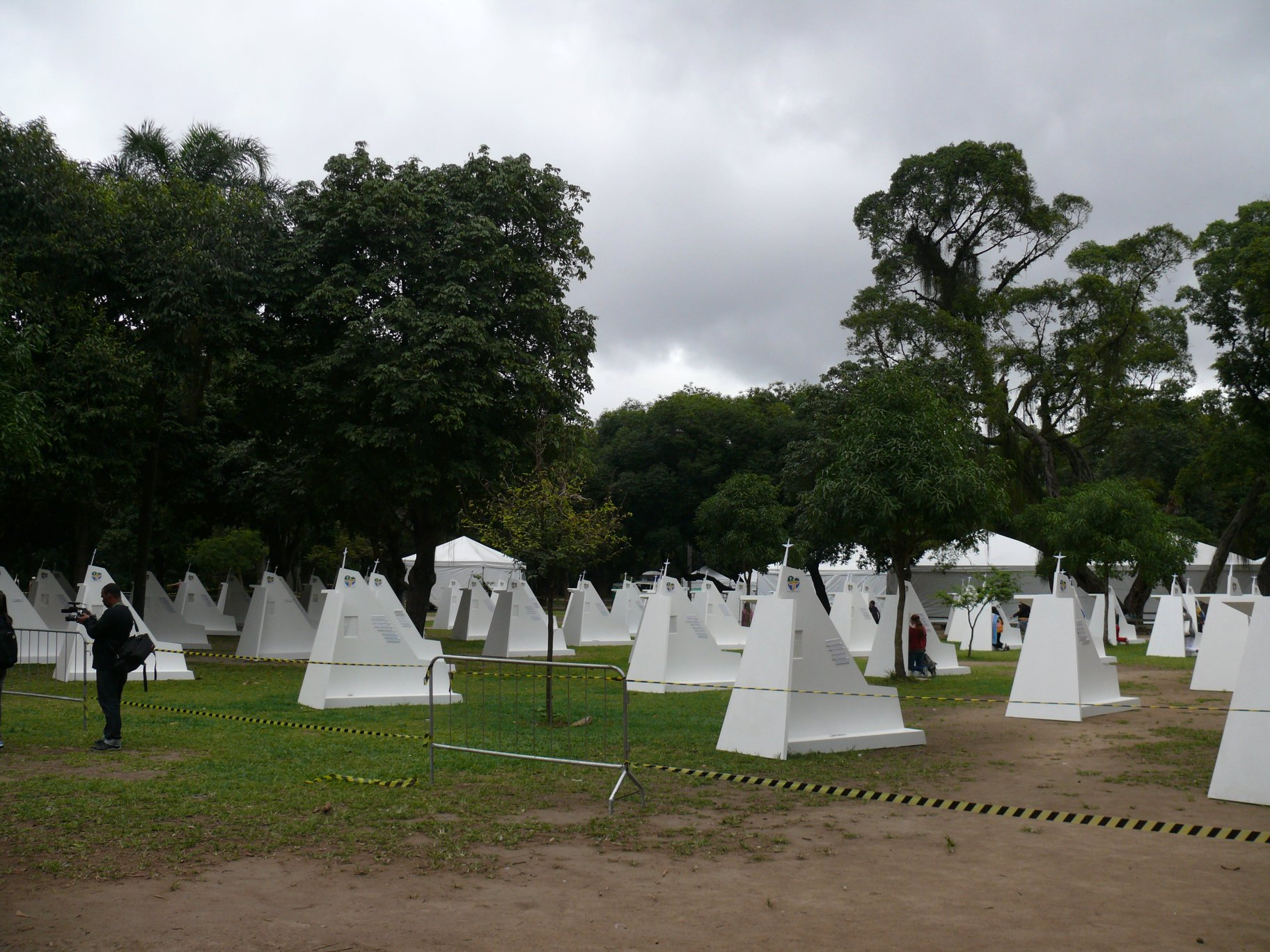 The 2013 World Youth Day in Rio de Janeiro (Brésil).